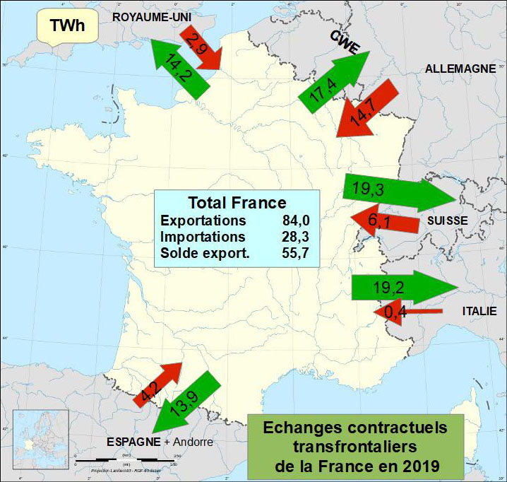 France's contractual electricity border exchanges Data sources : RTE (French electric grid public utility)